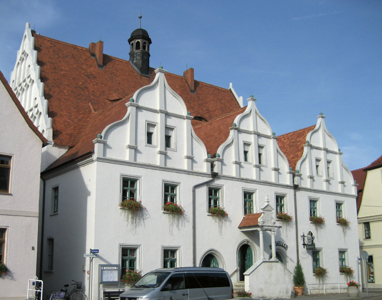 town hall of Kemberg, Germany